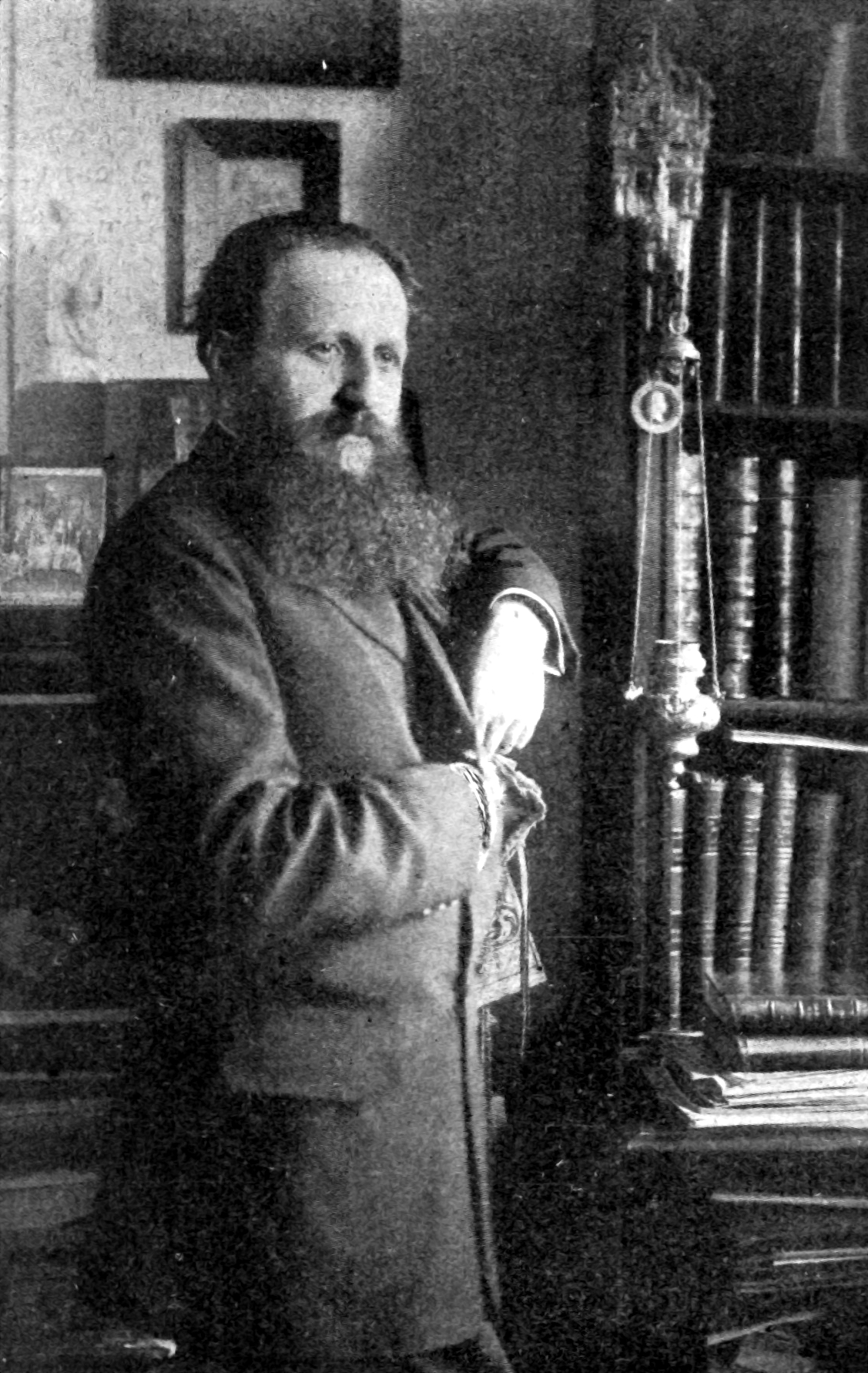 Alexandru Tzigara-Samurcaş, the Romanian art historian and ethnographer. Originally published in Luceafărul magazine, 9/1914, without mention of author.